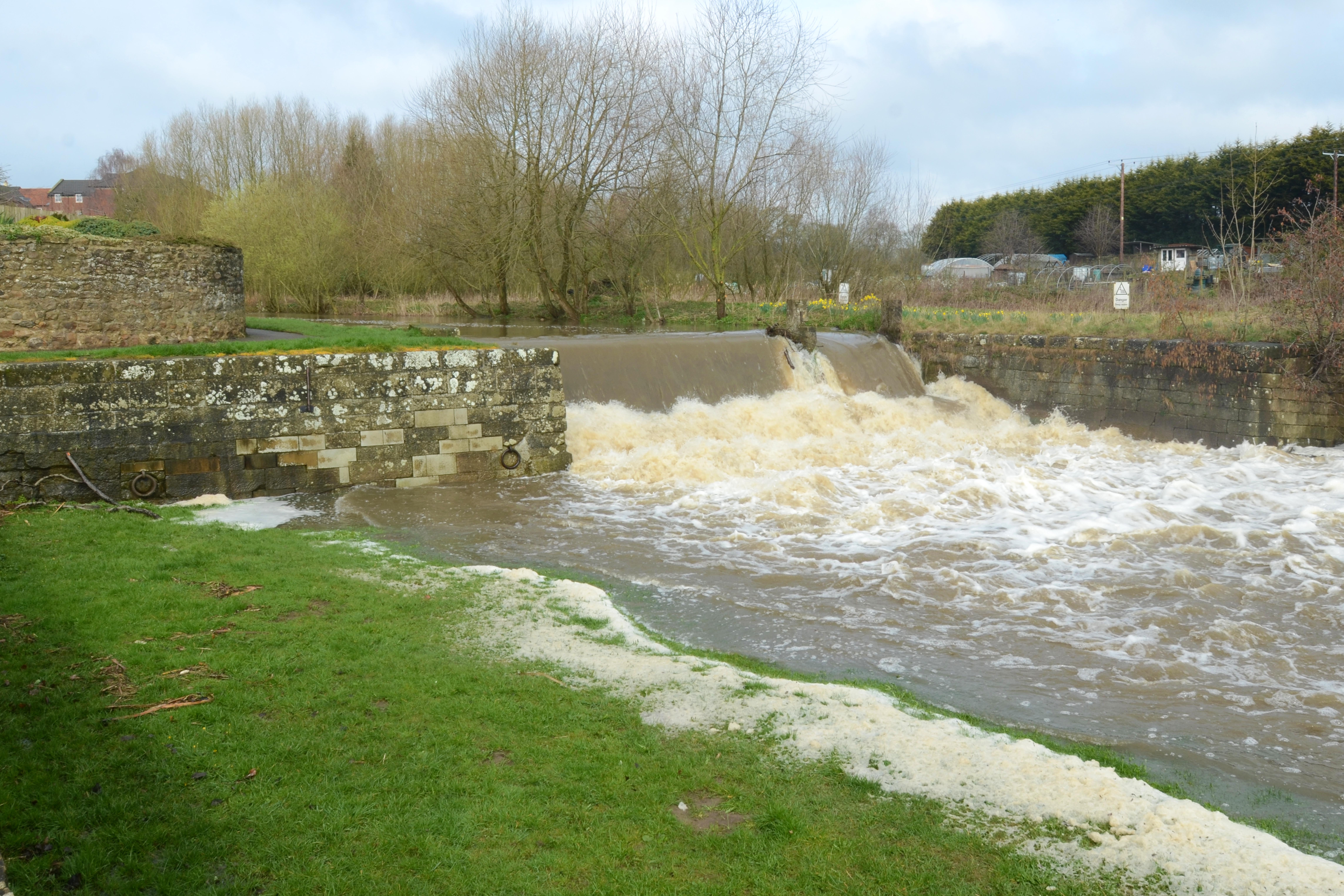 The 'Harbour' area at Bedale on Bedale Beck